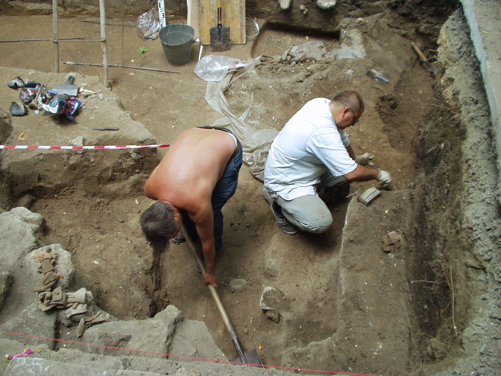 Primorsky bulvard, Odessa. Opening of the accient town.